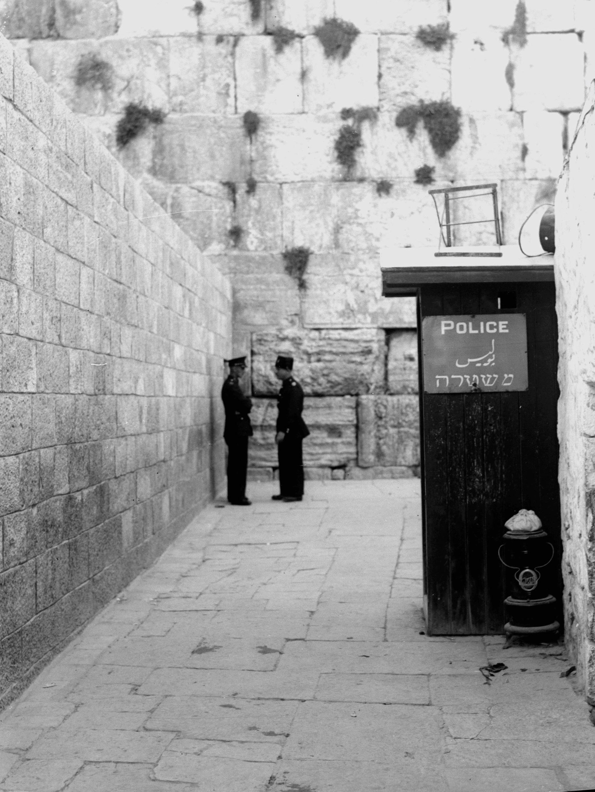 A police post at the entrance to the Wailing Wall in Jerusalem. עמדת משטרה בכניסה לכותל המערבי